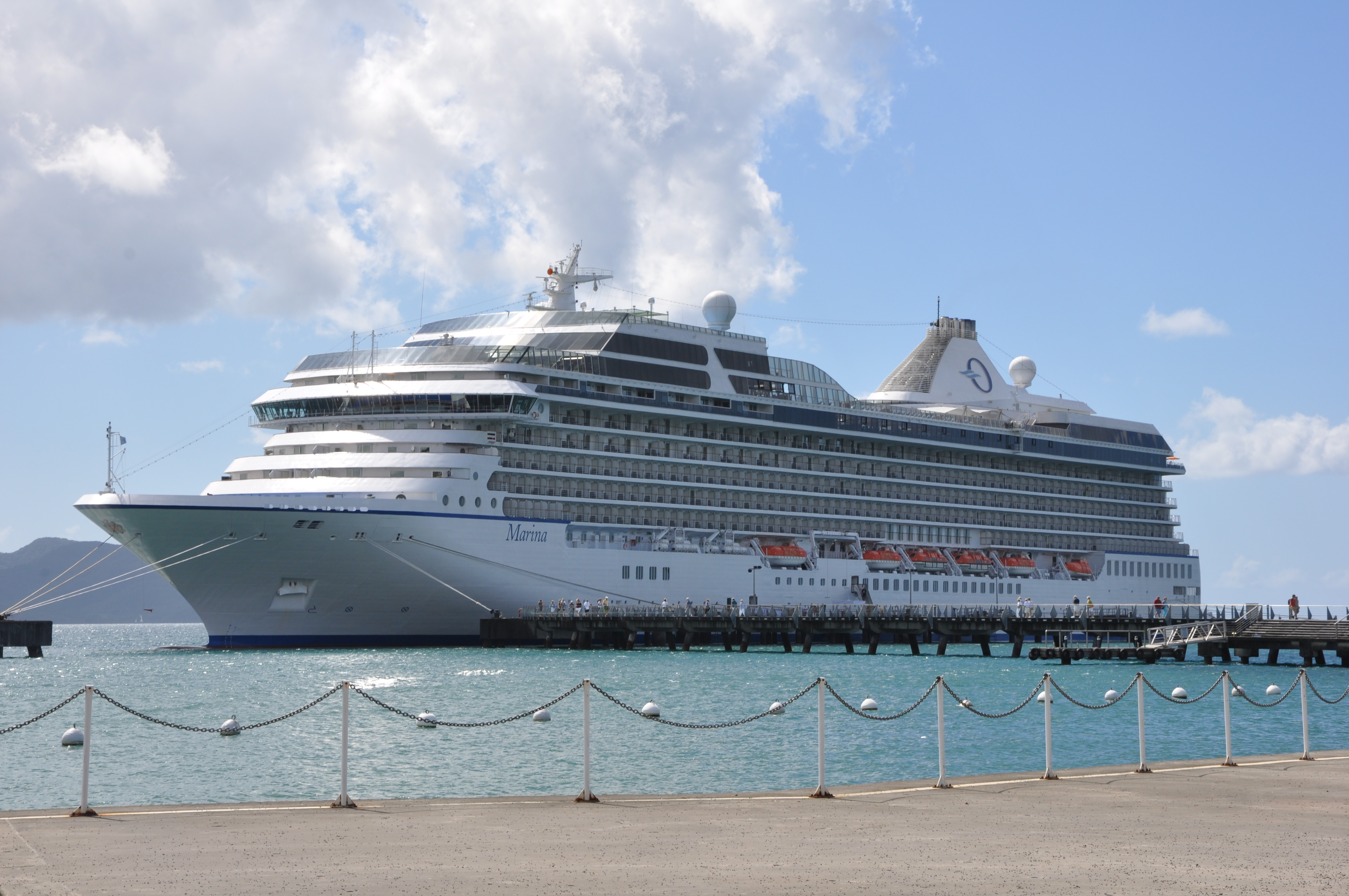 View of Oceania Cruise Line's MS Marina docked at Martinique.